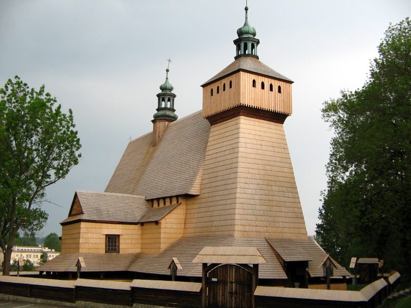 Church of the Assumption of Holy Mary and St. Michael's Archangel, built in 1388 in Haczow, Lesser Poland